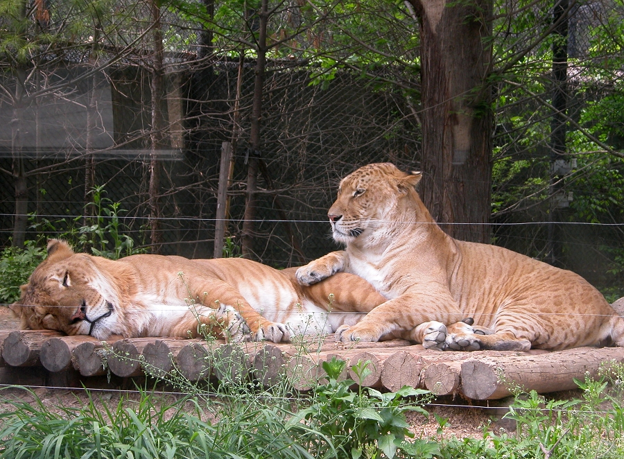 Liger in Korea Zoo